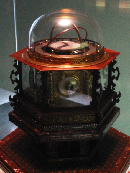 1851 Japanese-made perpetual clockwatch (Wadokei). Displayed in Tokyo National Science Museum. Taken in 2004.